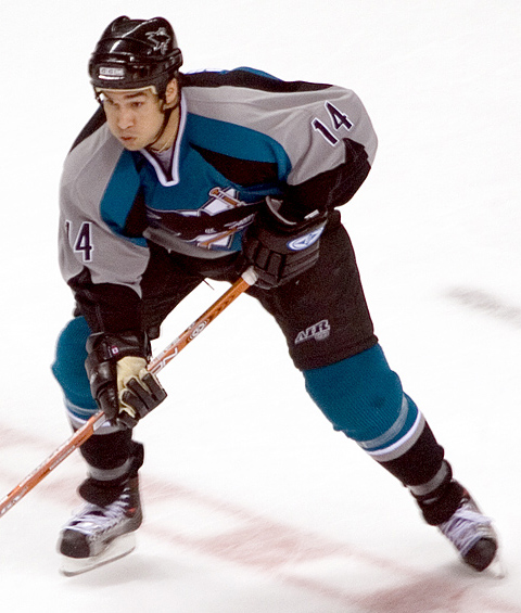 Ducks at Sharks April 15, 2006